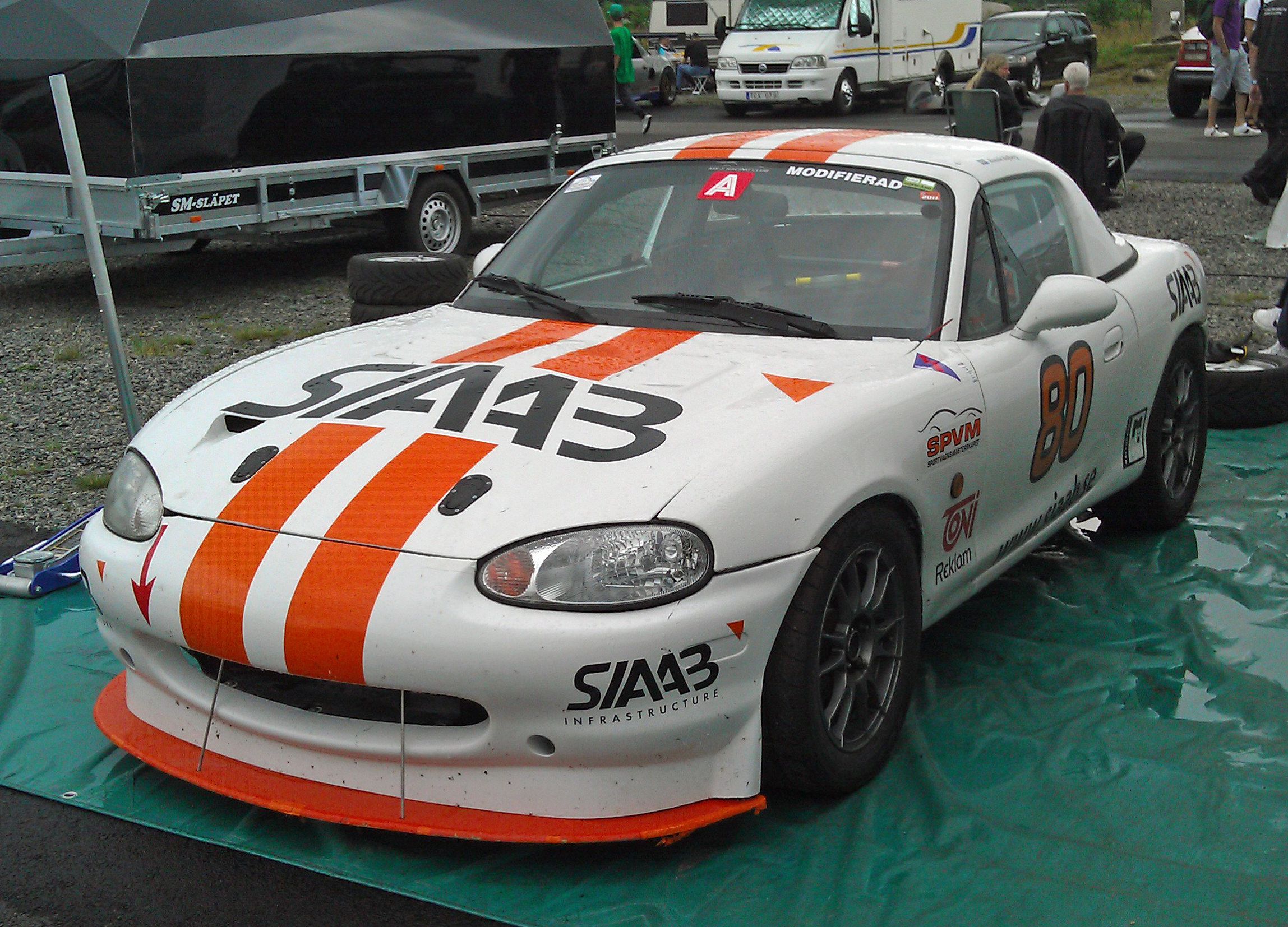 A Mazda MX-5 driven by Ronny Hofberg in Roadsport at Falkenbergs Motorbana, 2011